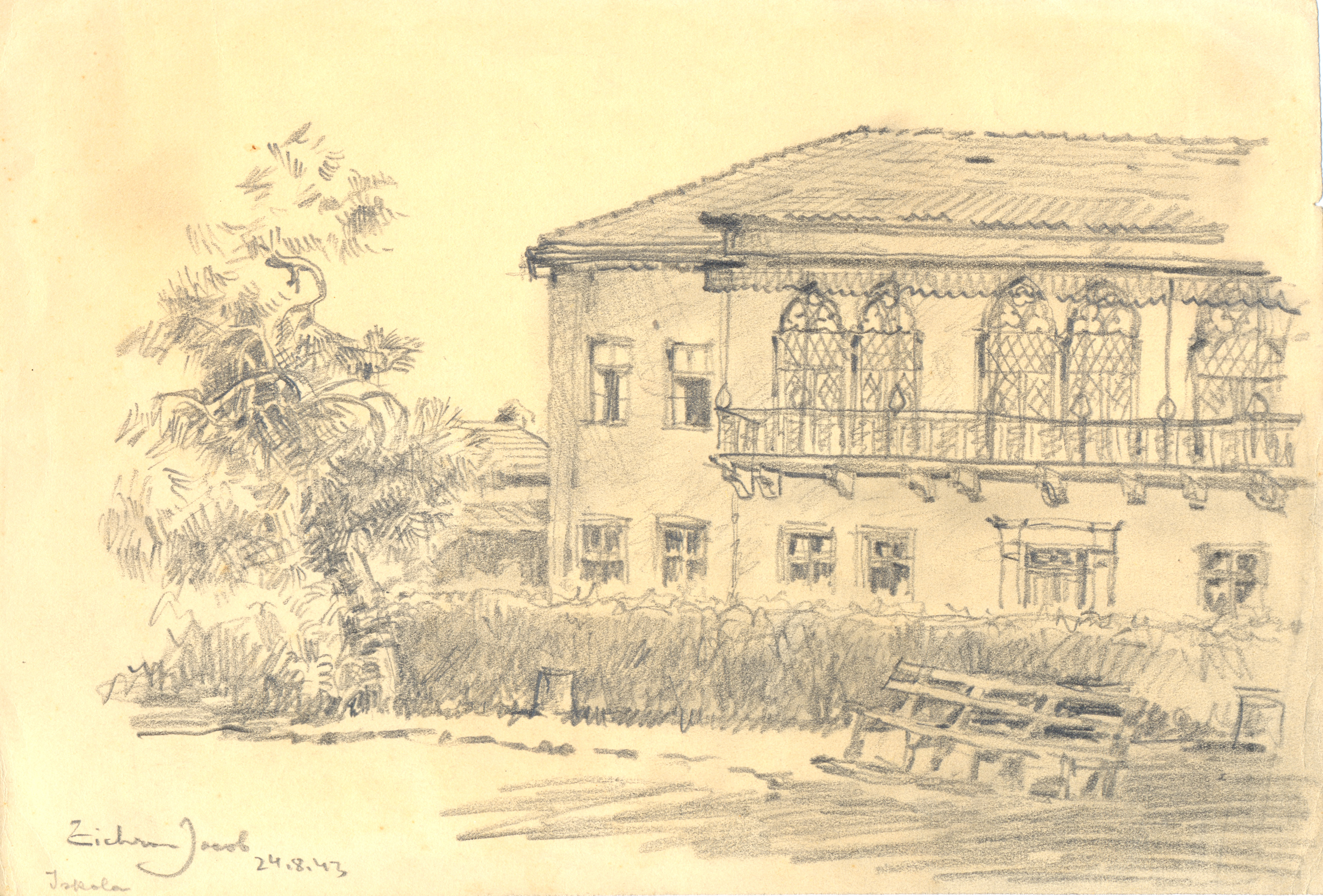 David Wittmann - Architect and Artist, Zichron Yaakov 1943, Pencil drowing of the Administration building